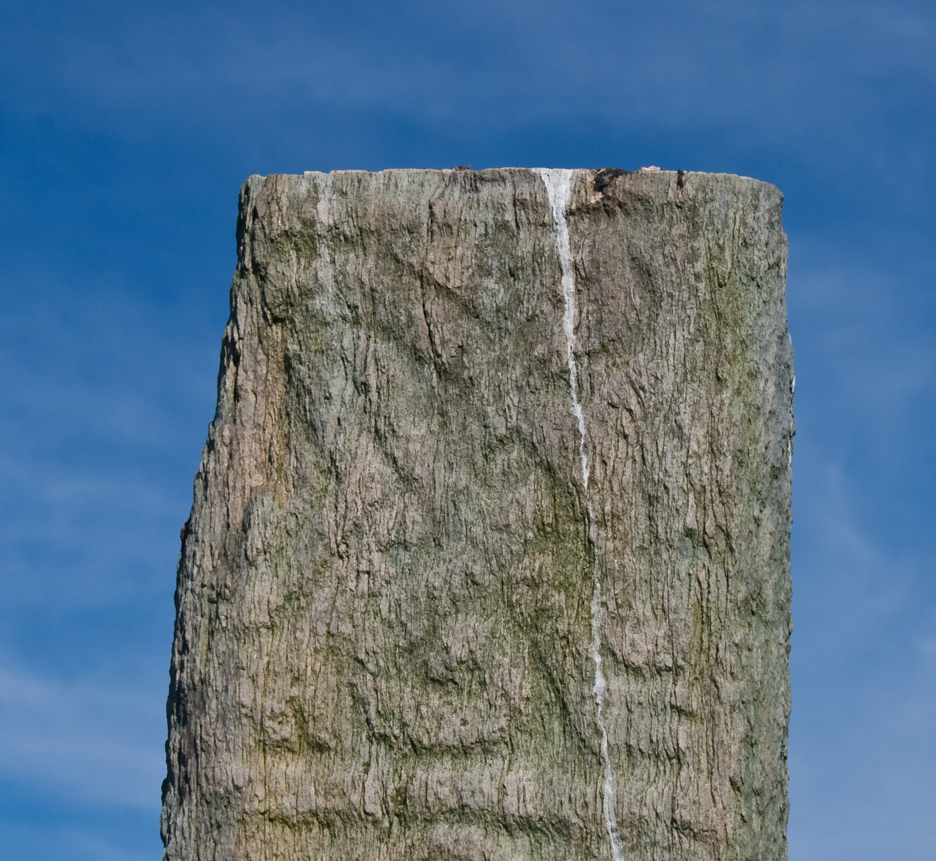 Kilnaruane, close to Bantry, County Cork, Ireland Interlace panel at the top of the east face of the Kilnaruane shaft. According to Colum P. Hourihane and James J. Hourihane in their joint paper The Kilnaruane Pillar Stone, Bantry, Co. Cork, Journal of the Cork Historical and Archaeological Society, July-December 1979, p. 67, this panel consisted of two individual pieces of single stranded ribbon interlace with four terminals, one at the top left hand corner, another at the bottom right hand corner, and two further terminals, ending in a spiral midway in the top and bottom sides of the panel. In their opinion the two distinct strands of the interlace panel [..] may be symbolic of the struggle between virtue and vice, one of the oldest themes in christian art. Michael J. Carroll in A History of Bantry & Bantry Bay, ISBN 978-0-955203-9-30, p. 100: The cross in the top panel represents both the symbol of the supreme sun-god of the ancient civilisation, and the sign of Christianity. The strands of interlacing would suggest the influence of the ancient sea-god Manannan, as he was usually portrayed by the sign of the sea serpent or snake. Thus we have the conflict of the old religion with Christianity – and good or evil.